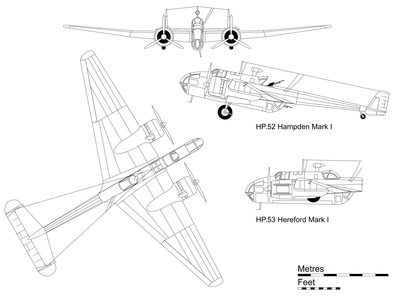 Orthographic projection of Handley Page Hampden, with profile details of Hereford variant